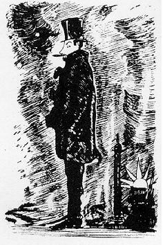 1860 dessin baudelaire, based on File:Portrait de Charles Baudelaire sous l'influence du hachich.jpg.